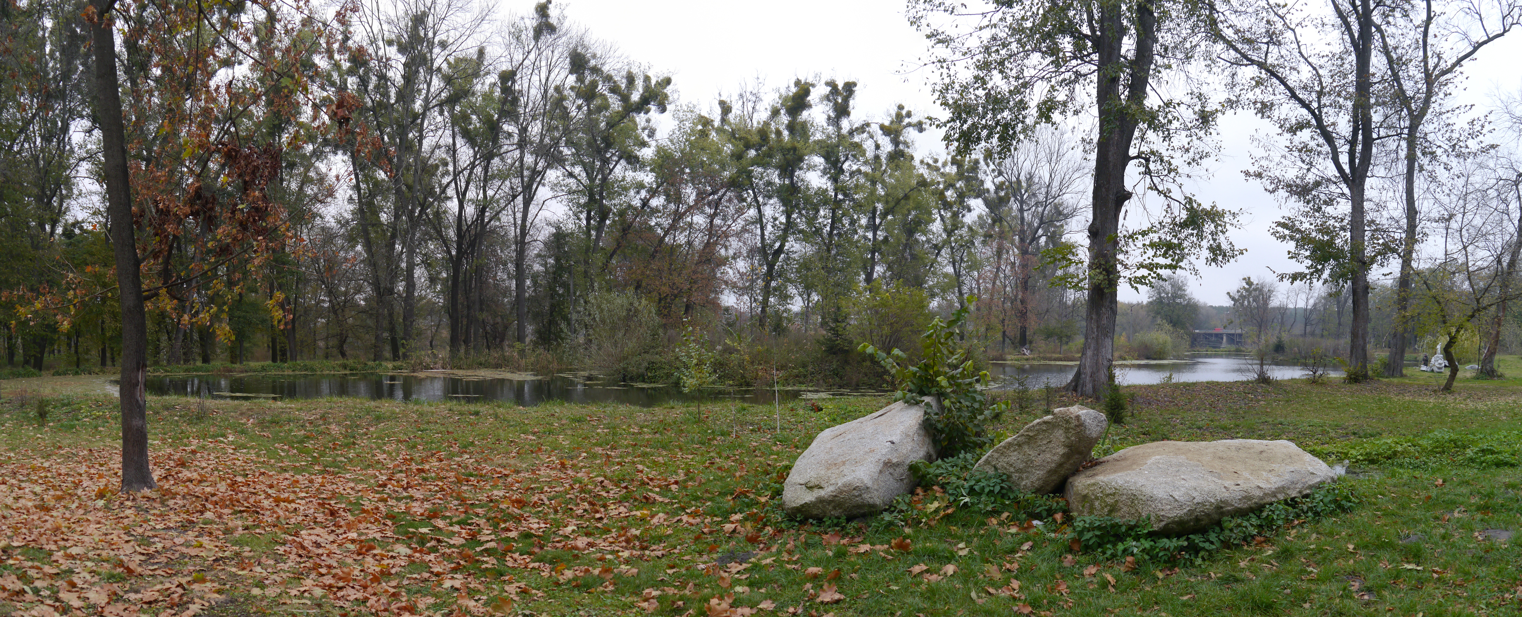 A part of the Korostyshiv park near the lakes is shown in the photo. Some statues and a bridge over the Teteriv river can be seen afar